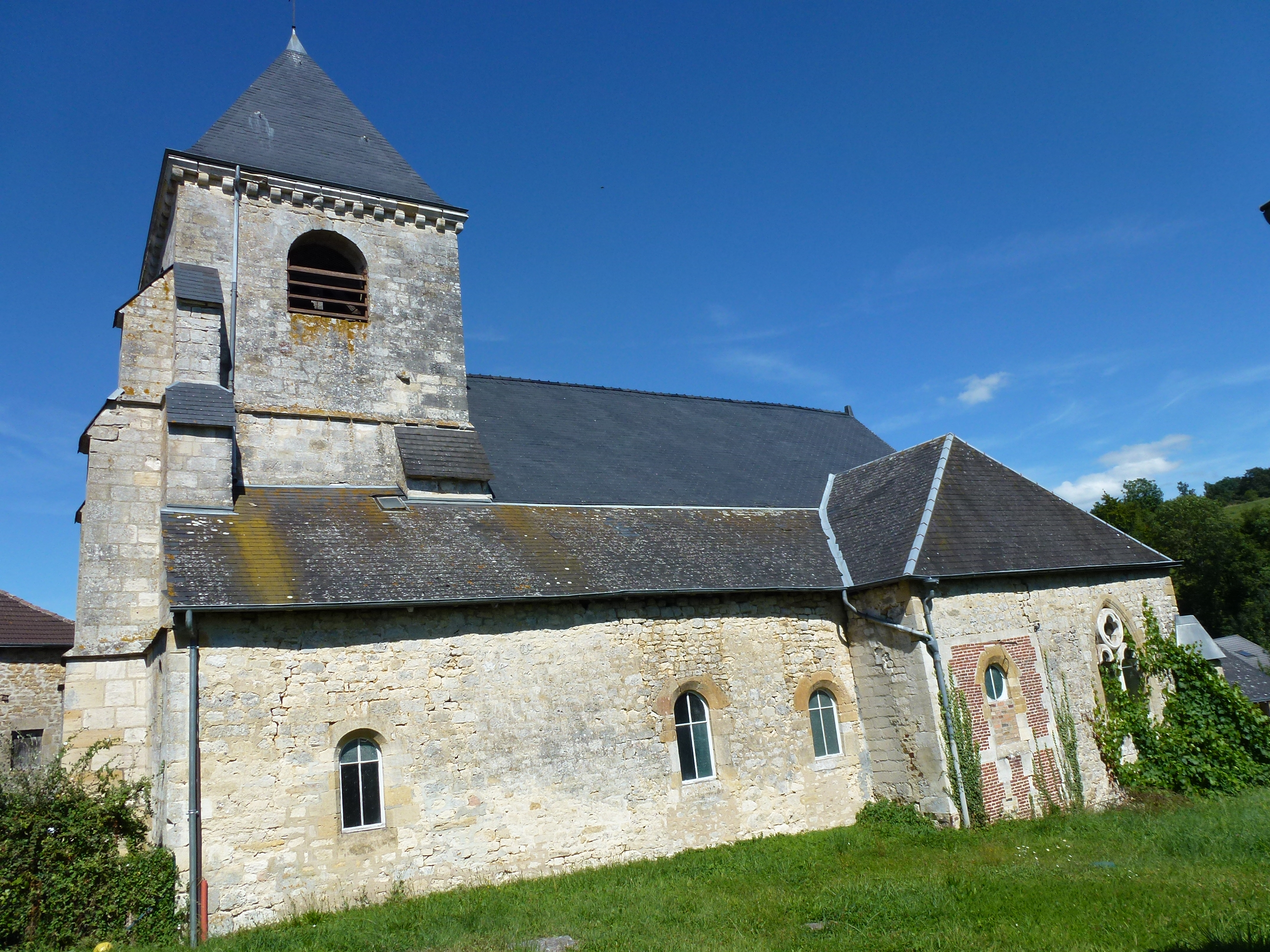 Vaux-Montreuil (Ardennes) église, vue du sud